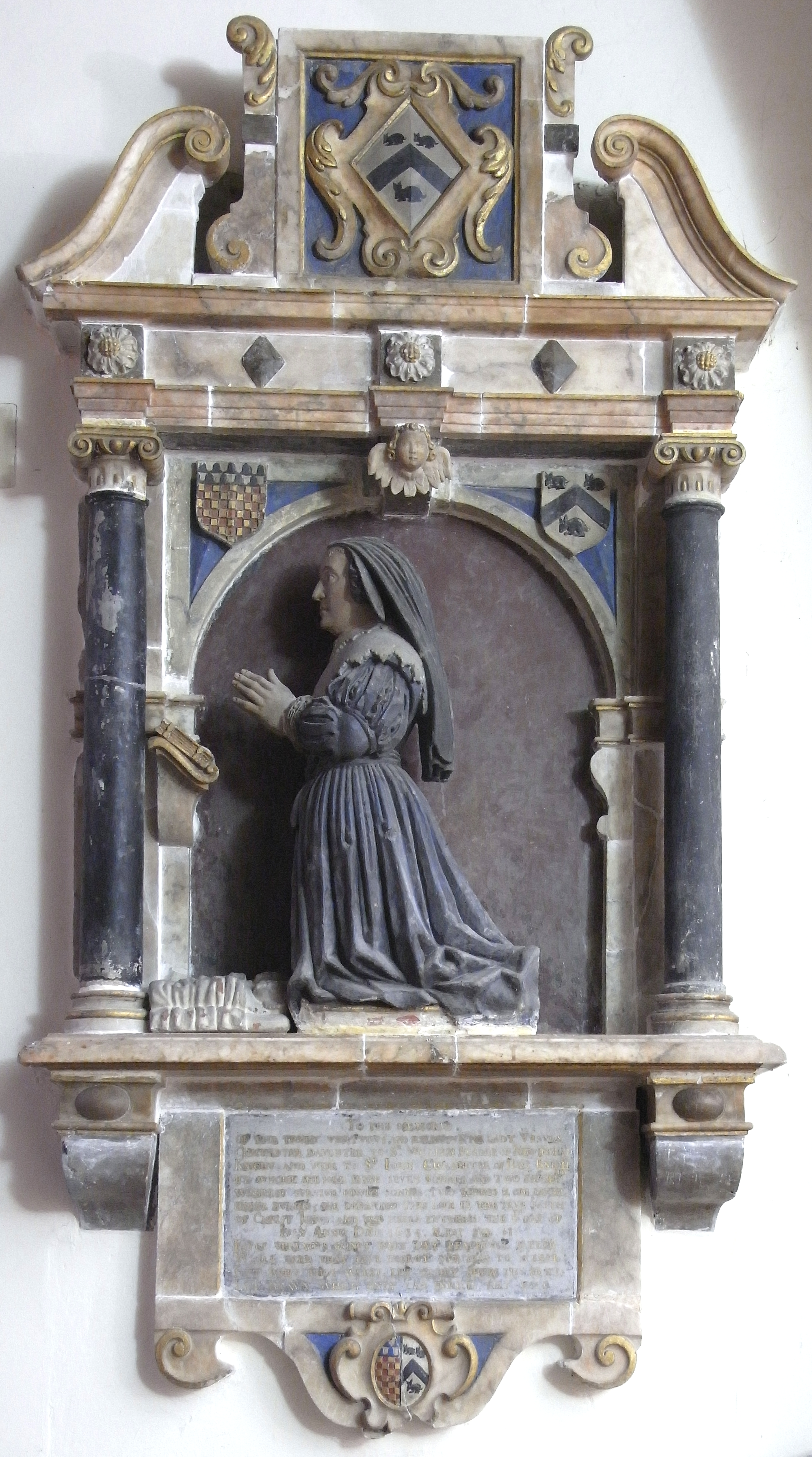 Mural monument to Ursula Strode (d.1635), 1st wife of Sir John III Chichester (d.1669) of Hall, Bishop's Tawton, Devon. South wall of chancel, Bishop's Tawton Church, Devon. Inscribed: To the memorie of the truly vertuous and religious the Lady Ursula Chichester daughter to Sr. William Strode of Newingeam, Knight, and wife to Sr. John Chichester of Hall, Knight, by whome she had issue seven sonnes and two daughters whereof survive fower sonnes, two sonnes & one daught. heere buried. She departed this life in the true faith of Christ Jesus and was heere enterred the 6th (5th?) day of July Anno D(omi)ni 1635 aetat(is) suae (47?). Fayre virtuous sainct injoy thy peacefull sleepe, While wee that live employ our foes to weepe, But when thou wak'st let glory shew thy grace, Let Heav'n, which only can, enrich thy face. See also Newnham (Old); Hall, Bishop's Tawton